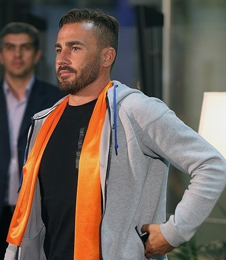 Fabio Cannavaro, former Italian footballer arriving in Imam Khomeini Airport for a charity match in Tehran